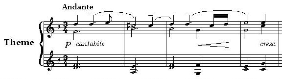 The first measures of S. Rachmaninoff's Variations on a Theme of Corelli, op. 42 (1931).